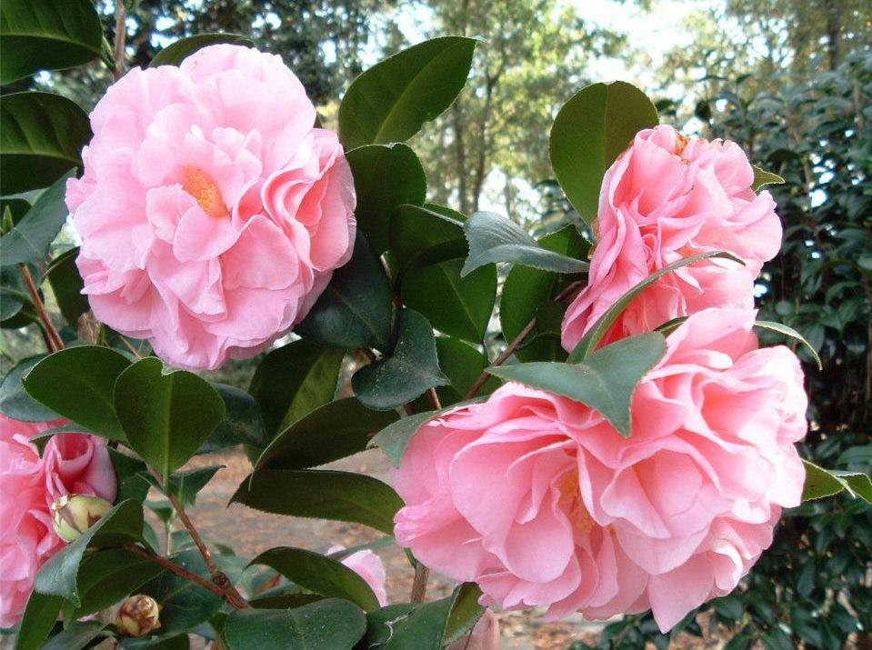 Flowers of the camellia cultivar Frankie Winn at the Judge Arthur Camellia Trail at the Coastal Georgia Botanical Gardens.